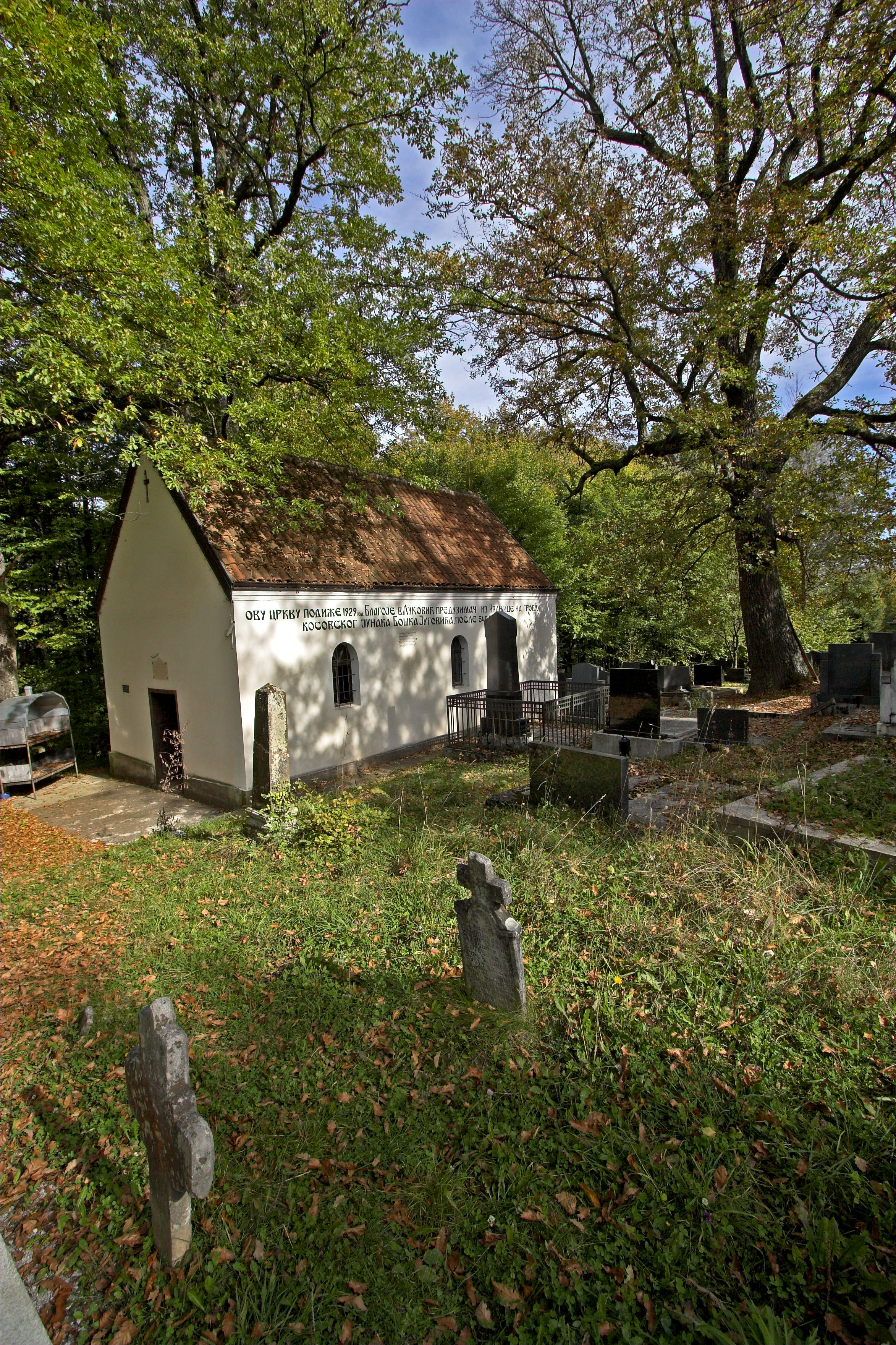 Crkva Lazarica